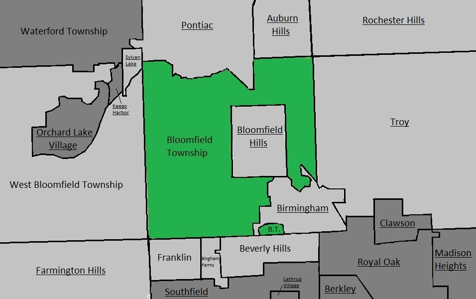 A simple map of Bloomfield Township, Oakland County, Michigan. Neighbouring places are in light grey, other places in dark grey. Cities are underlined.